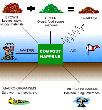 Composting